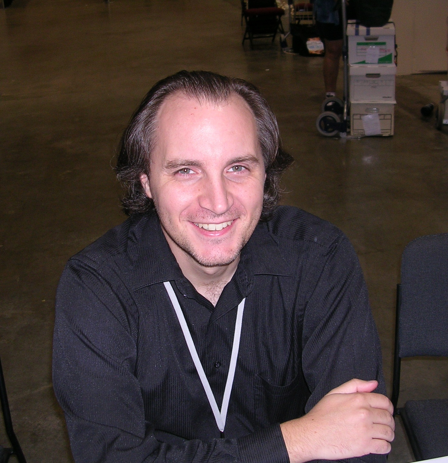 Author Dan Wells at WorldCon 69: Renovation